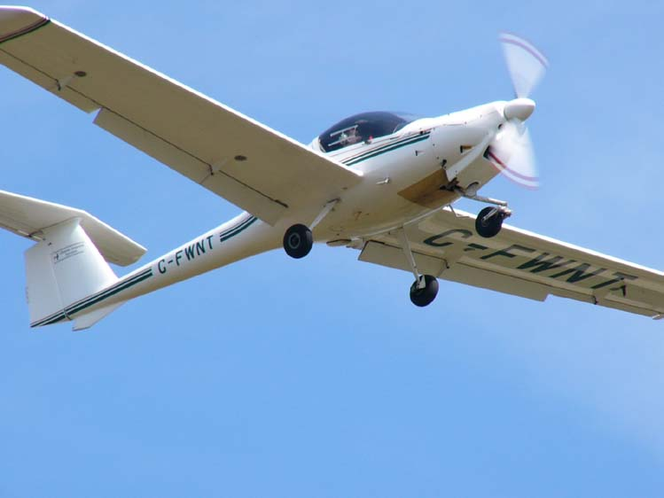 Diamond DA-20A-1 Katana (C-FWNT) at Ottawa Macdonald-Cartier International Airport on 27 August 2005